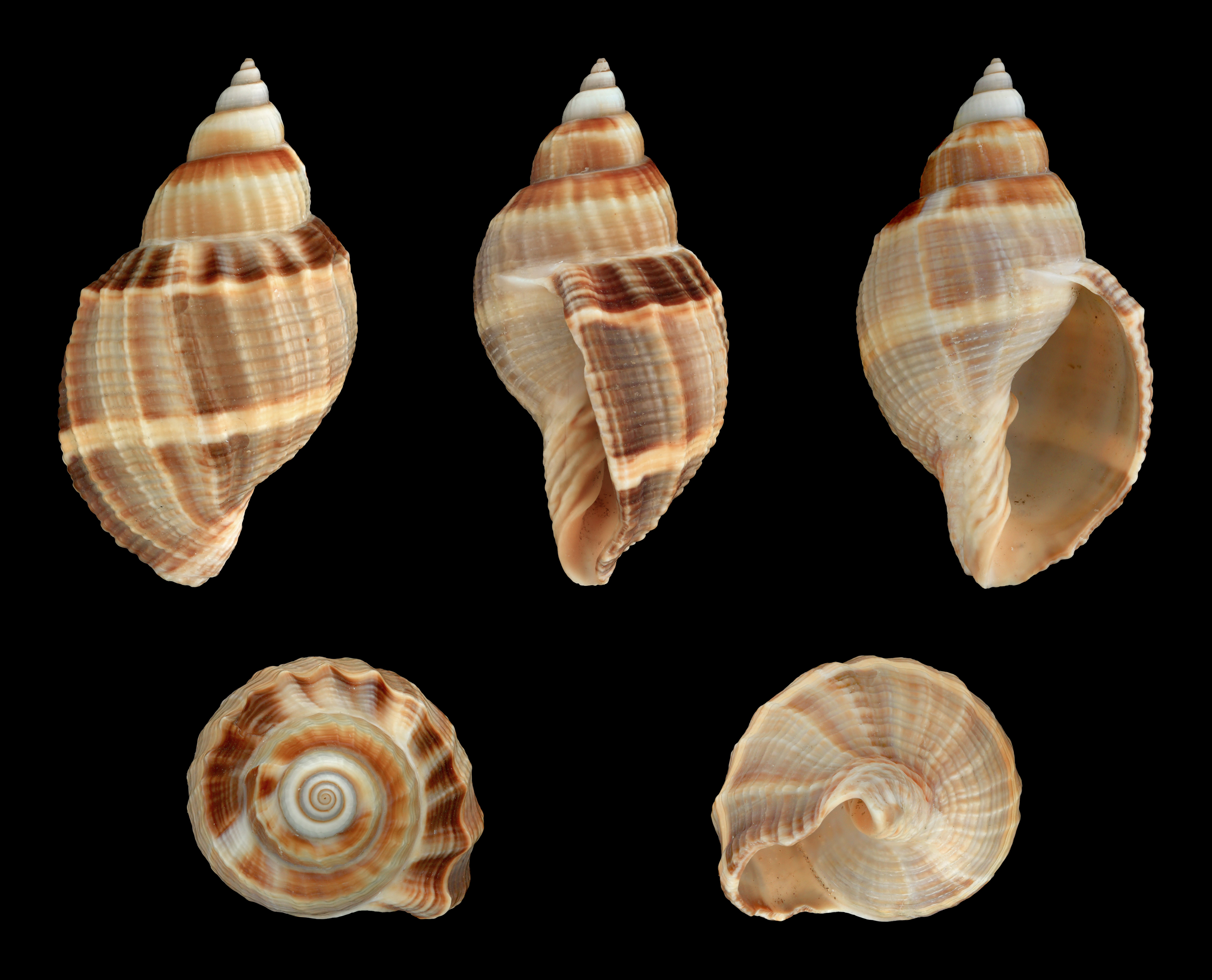 Spengler's Nutmeg; Smooth form; Length 4.7 cm; Originating from Japan; Shell of own collection, therefore not geocoded. Dorsal, lateral (right side), ventral, back, and front view.